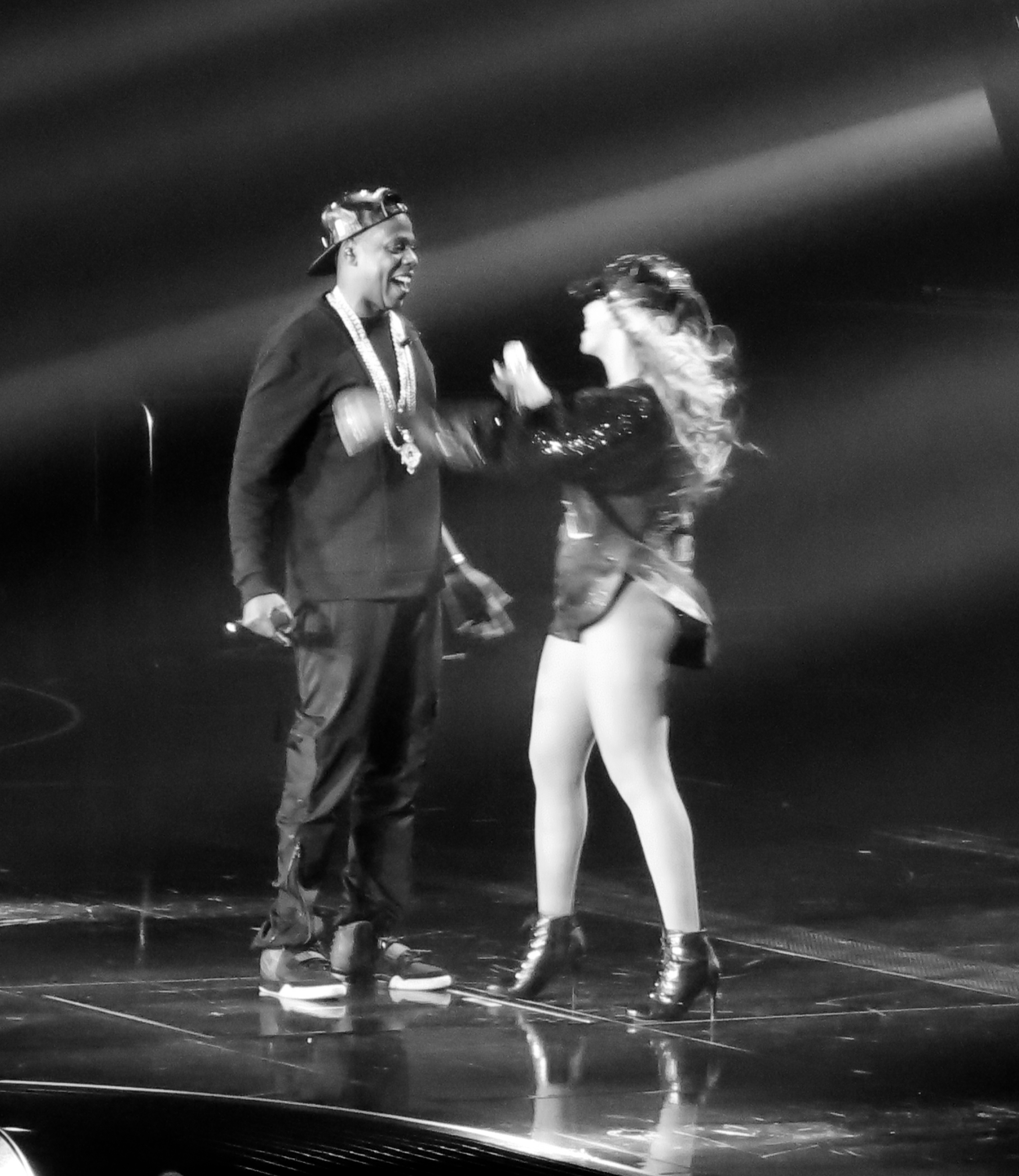 Beyoncé and Jay-Z embracing, following their performance of "Diva/Bow Down/Tom Ford" on The Mrs. Carter Show World Tour (August, 2013)